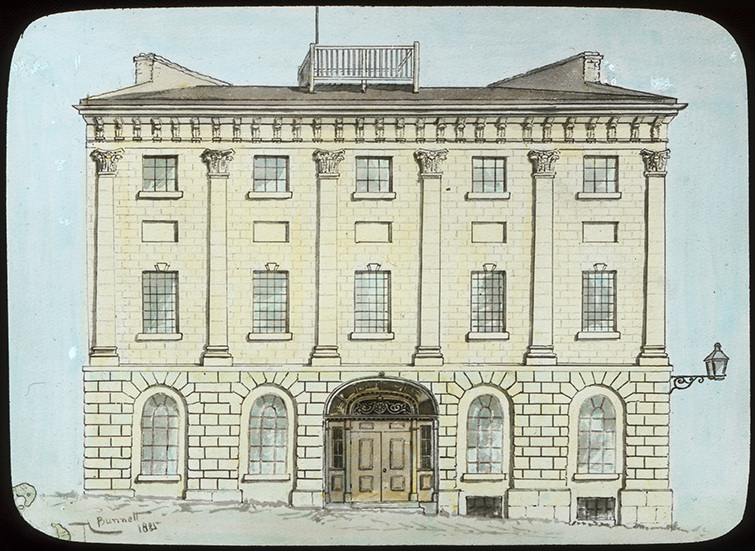 "Building occupied by the Geological Survey 1852 to 1874. St. Gabriel Street, Montreal. Sketch by H. Bunnett. Residence of Honourable Peter McGill".